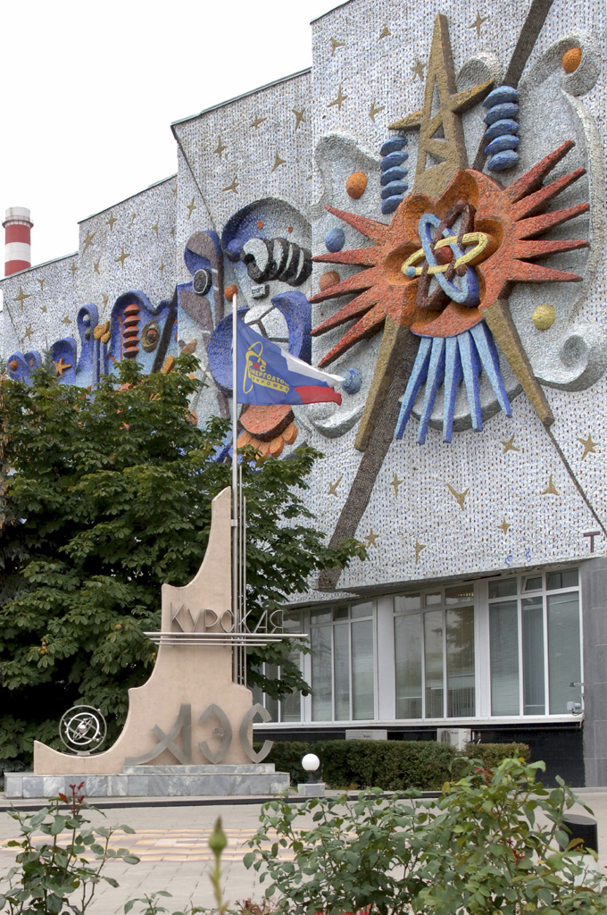 “Kursk Nuclear Power Plant”. An administrative building of Kursk Nuclear Power Plant in the town of Kurchatov.